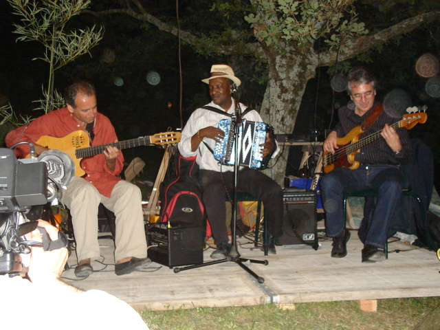 Pascale Nehring's marriage